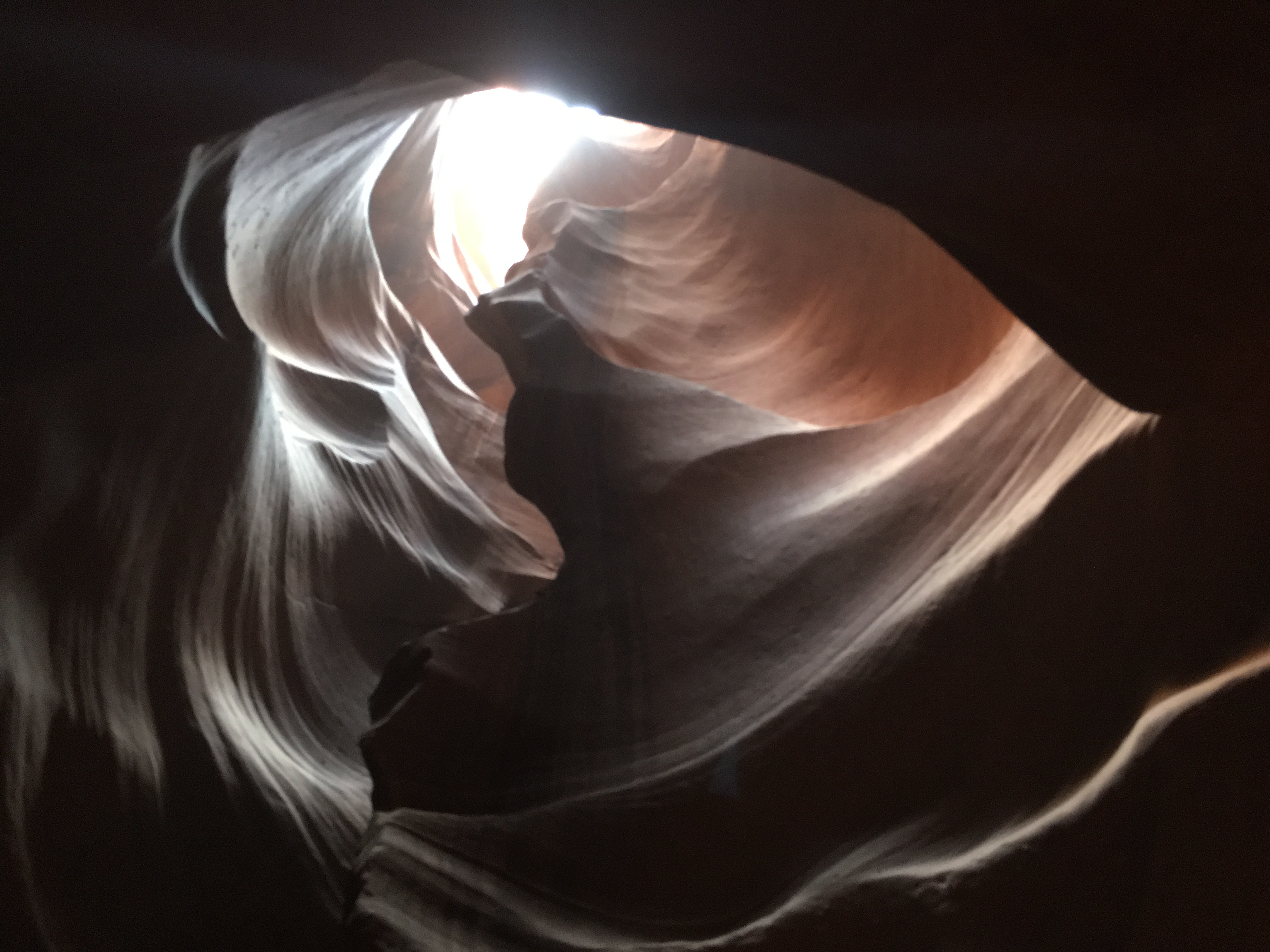 Antelope Canyon, AZ Heavy rains and wind have created beautiful canyons